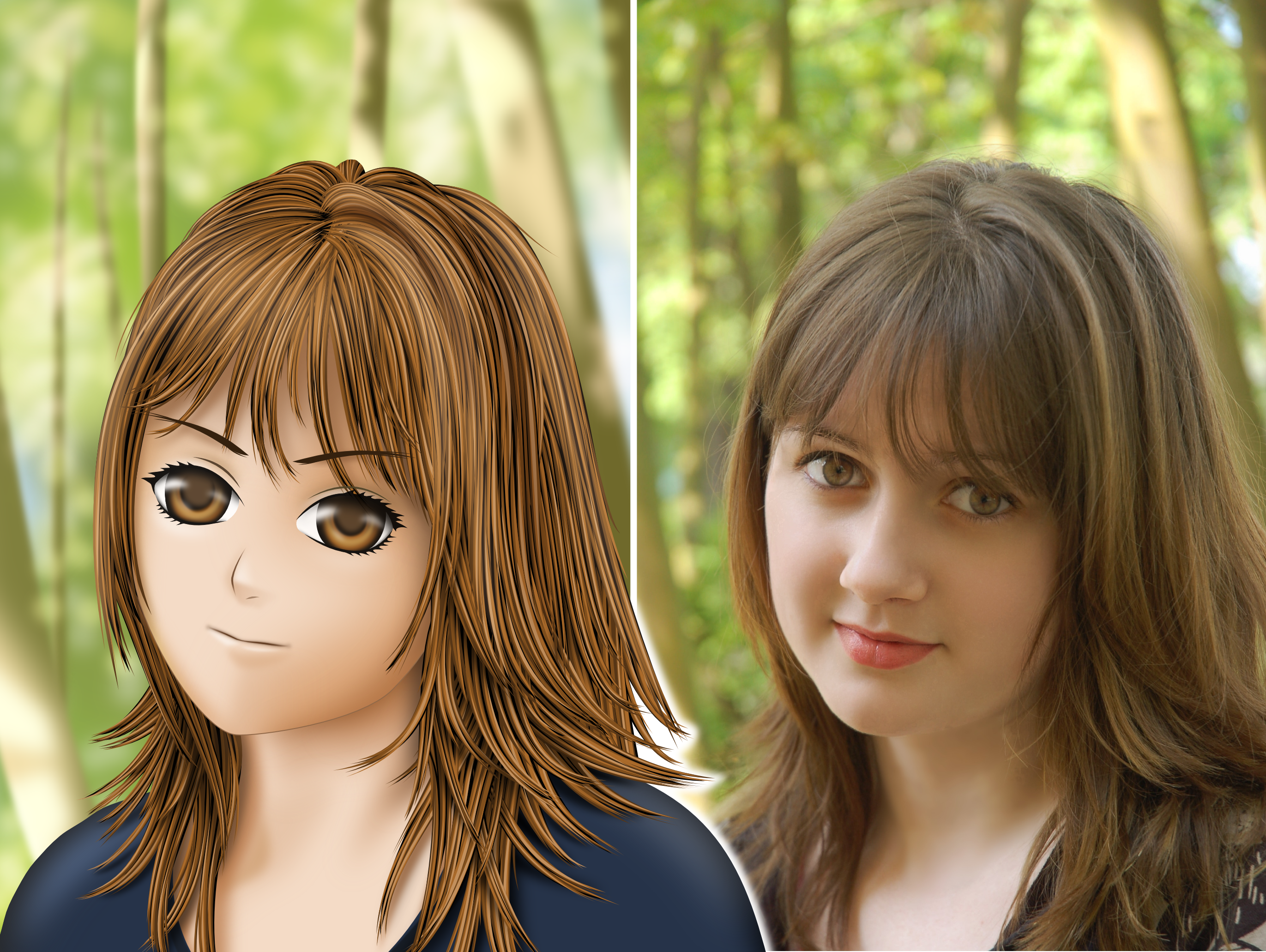 Comparison between a photograph and a drawing in anime/manga style from the same motive.